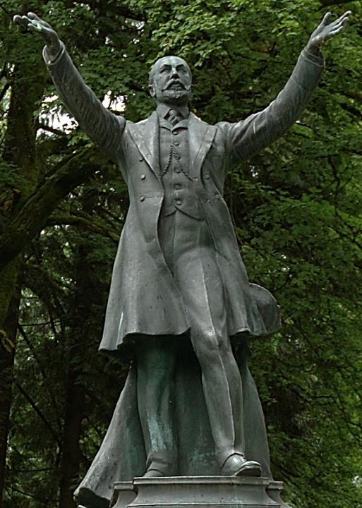 Frederick Stanley, 16th Earl of Derby. The Stanley monument in Stanley Park, Vancouver, on plinth inscribed with words he used on 29 October, 1889, when dedicating the park, which had been opened in September 1888: To the use and enjoyment of people of all colours and creeds and customs for all time, I name thee Stanley Park. Governor General Georges Vanier unveiled the monument on 19 May 1960.